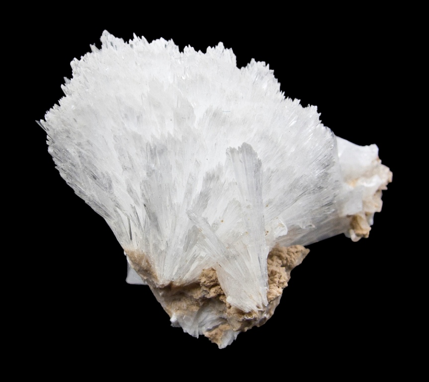 Hydroboracite Locality: Boraxo Mine (Kern Borate Mine; Boraxo deposit; Boraxo No. 1 and No. 2; Clara claim; Thompson Mine; Tenneco Mine), Ryan area, Death Valley, Inyo County, California, USA (Locality at ) Size: 3.4 x 2.5 x 2.3 cm Emanating from a sliver of matrix is an aesthetic, radiating cluster of acicular, lustrous and translucent, colorless hydroboracite crystals, to 2 cm in length. This specimen was collected in 1970 by Jim Minette with Dave Wilber. A superb example of this rare species. Ex. Al Ordway Collection.